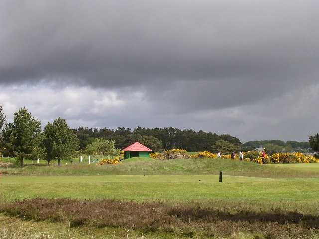 Golfing on the Championship course at Carnoustie. The town of carnoustie is just visible in the top right of the photo.